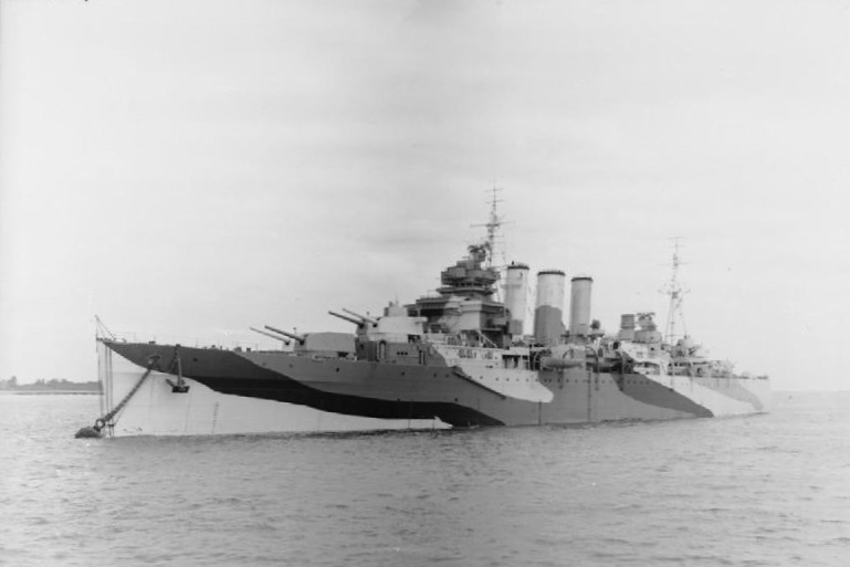 British heavy cruiser HMS SHROPSHIRE at a buoy at Sheerness just before being handed over to the Royal Australian Navy as HMAS Shropshire, April 1943..